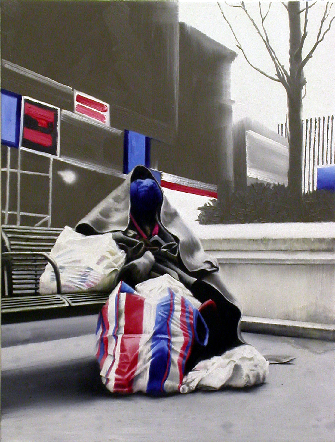 Slawomir Elsner Old Street 2 2005, 70 x 53 cm, oil on canvas